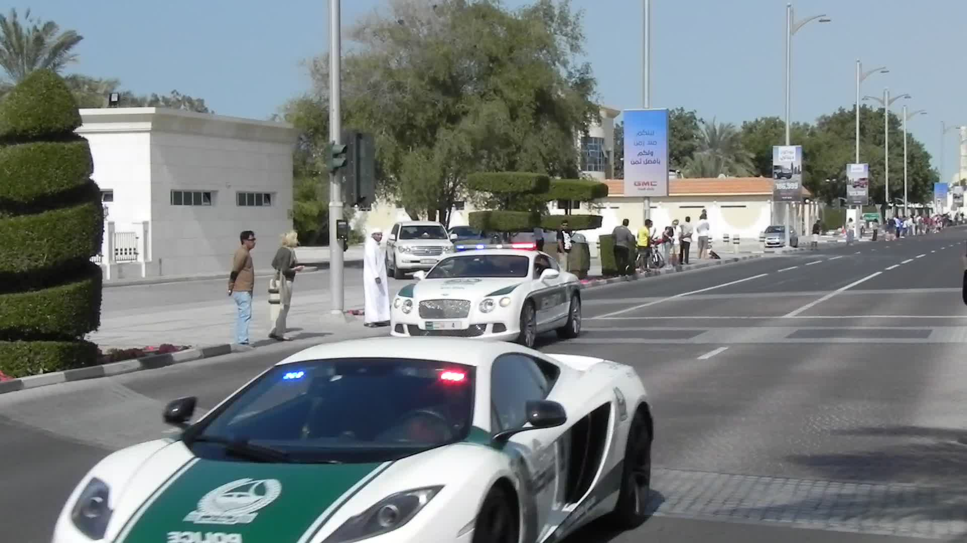 Dubai's high end vehicles helping to clear Jumeira Rd for theTour Dubai final stage